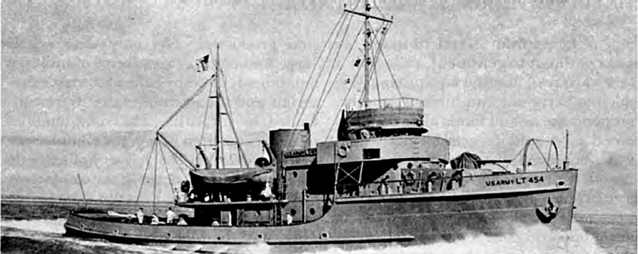 U.S. Army LT-454, a 143-foot diesel electric ocean-going tug of a type used extensively in theaters of operations. She was built at Levingston Shipbuilding, Orange Texas and delivered December 31, 1943 to the Army. She was a Design 377 of 143' x 33' dimensions (see TALK for tech refs).